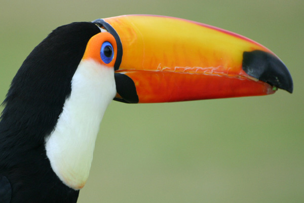 A Toco Toucan (Ramphastos toco). Photo taken at Whipsnade Zoo.